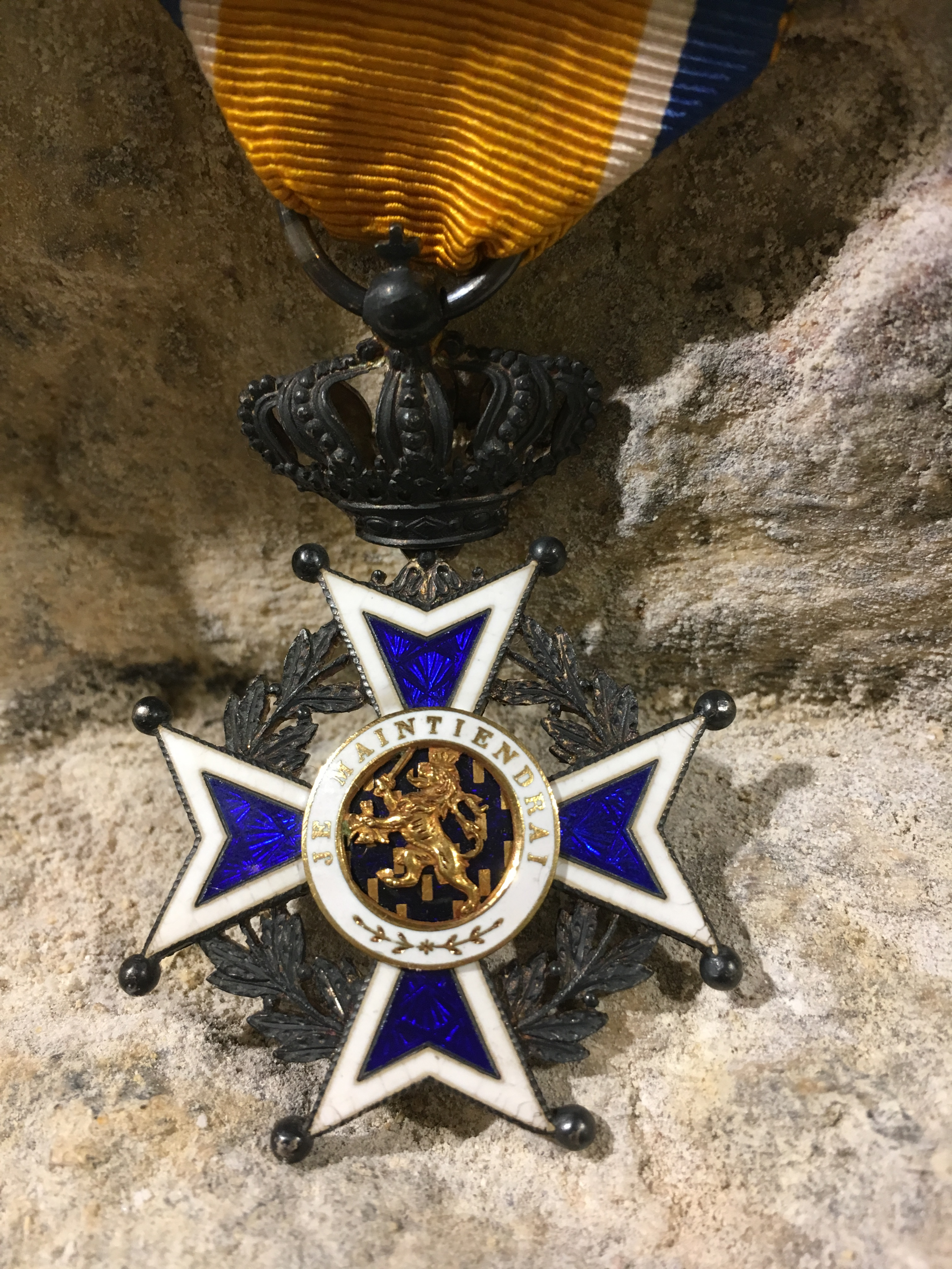 Knight's cross of the Order of Orange-Nassau in silver, gold and enamels. Private collection.